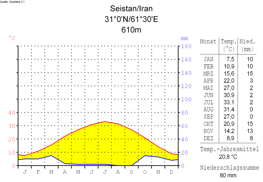 climate chart in the format by Walter and Lieth, metric, °Celsisus and millimeters, made with Geoklima 2.1